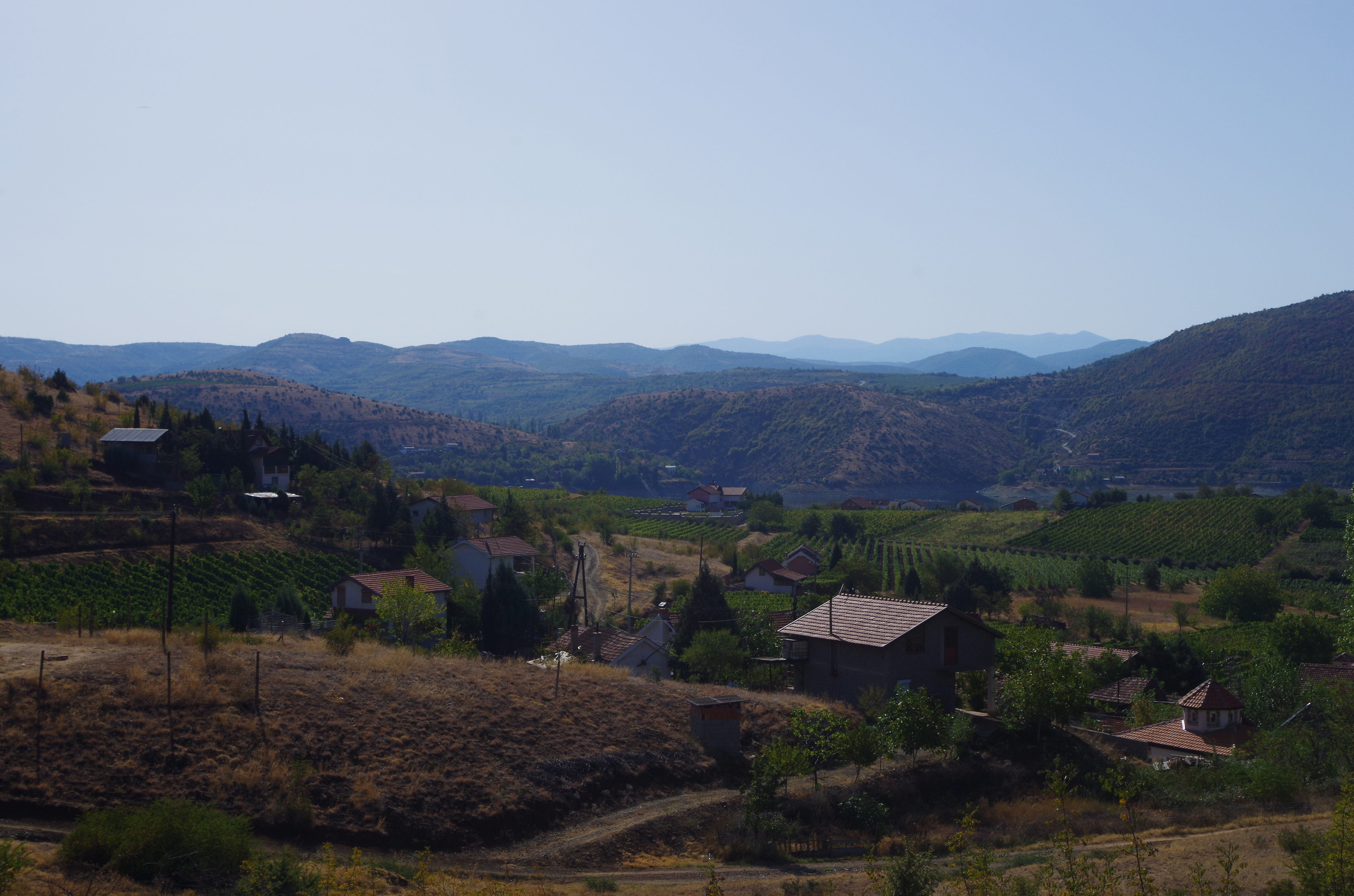 Panoramic view of the village of Brušani